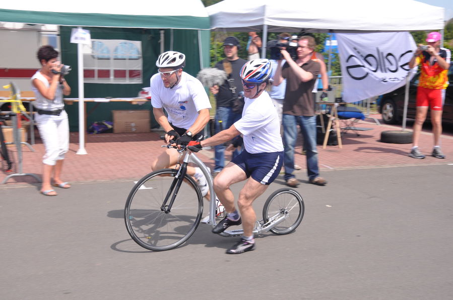 Scooter handover of the finnish relay at the EuroCup 2009 in St. Wendel/GER.